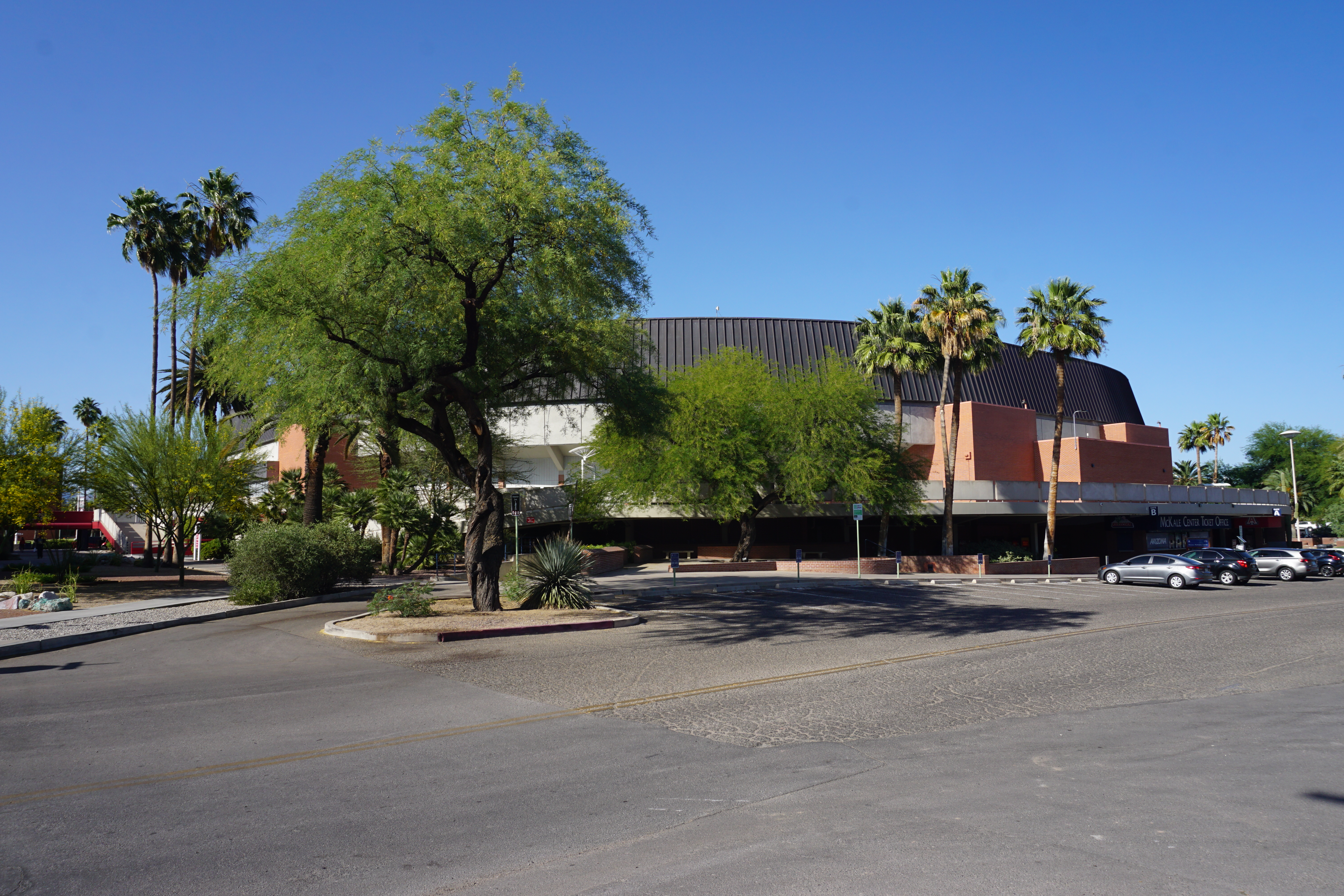 The McKale Memorial Center on the campus of the University of Arizona in Tucson, Arizona (United States).